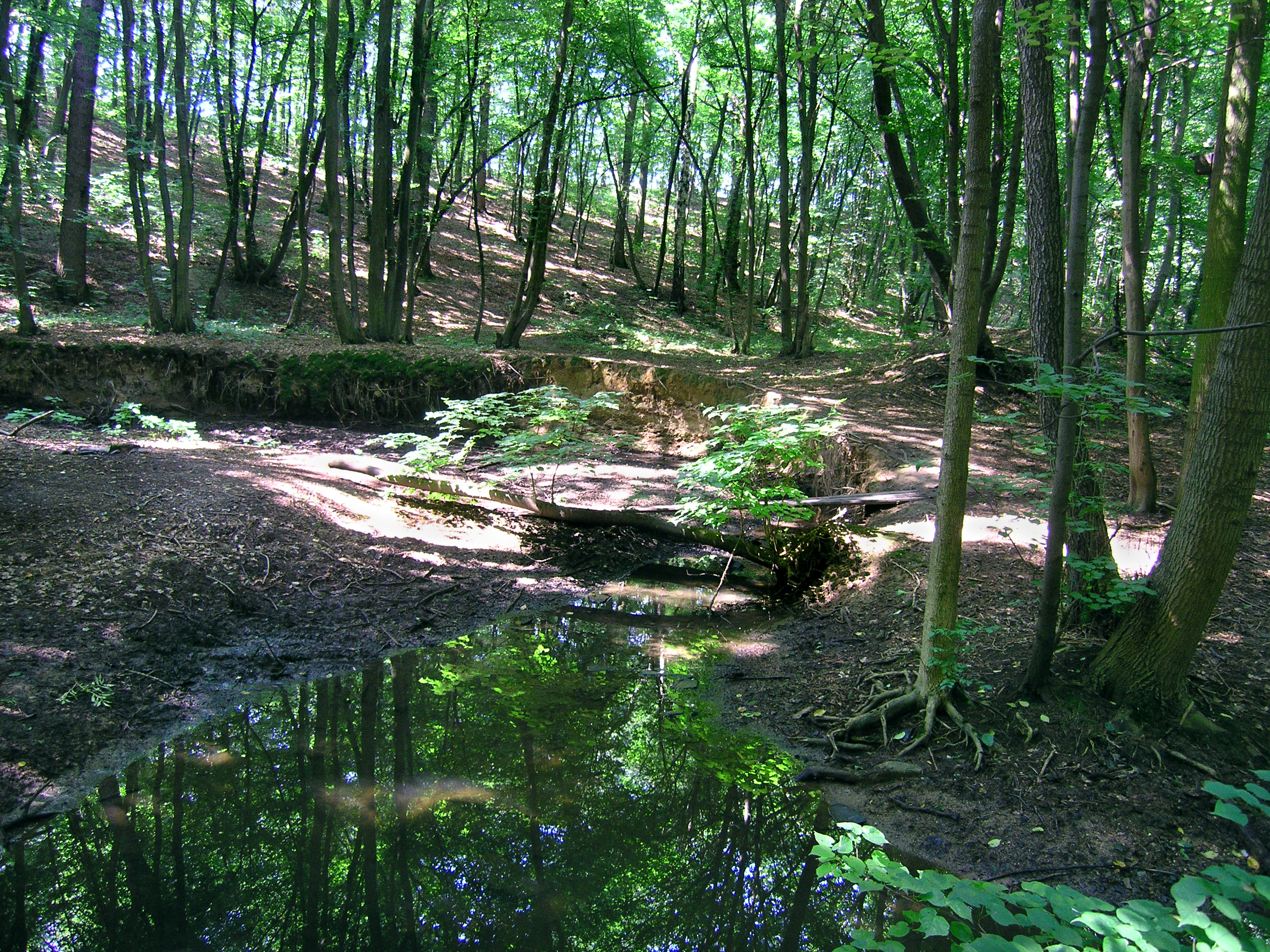 Rokytka river in Mýto natural reserve in Nedvězí, Prague